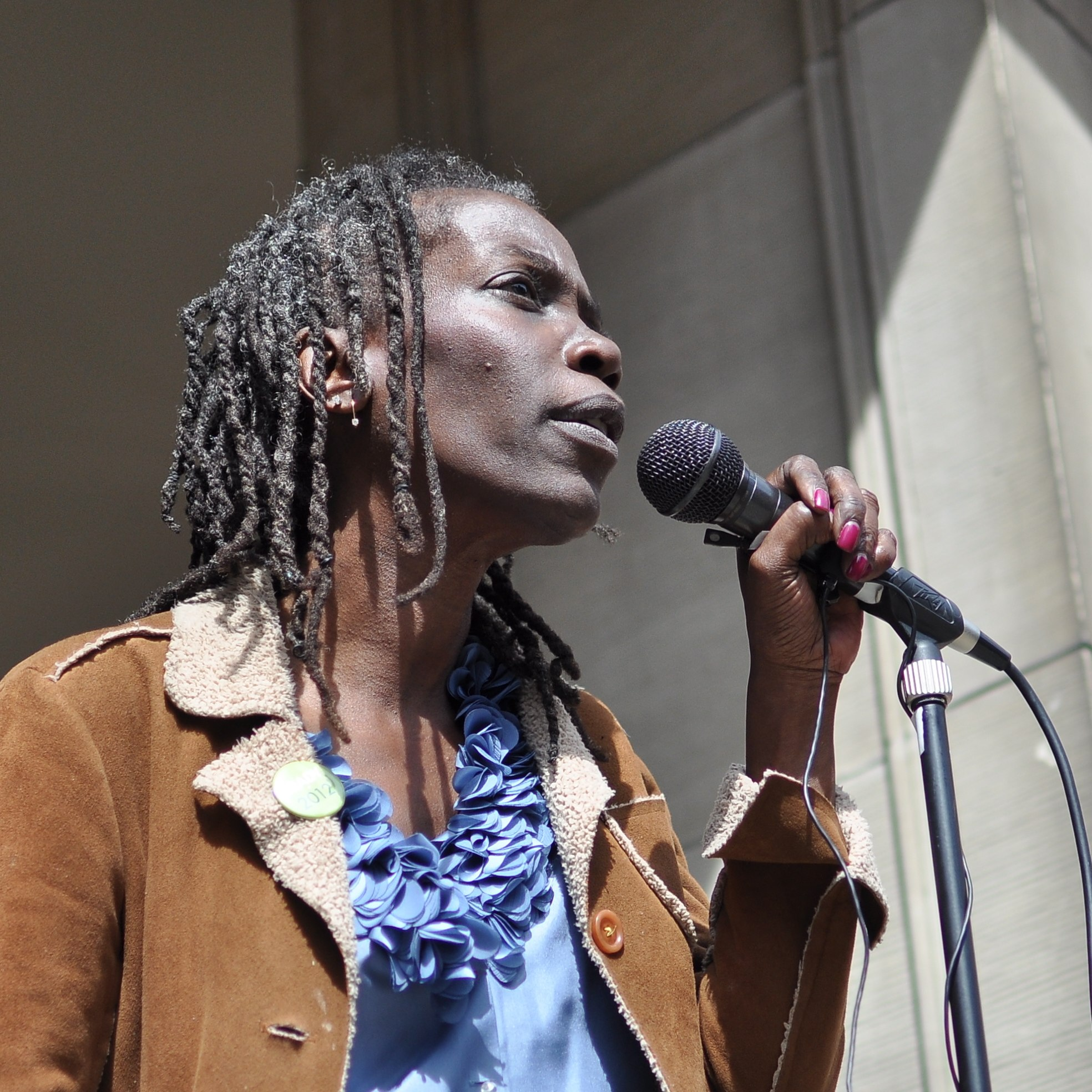 Member of Albina Ministerial Alliance.